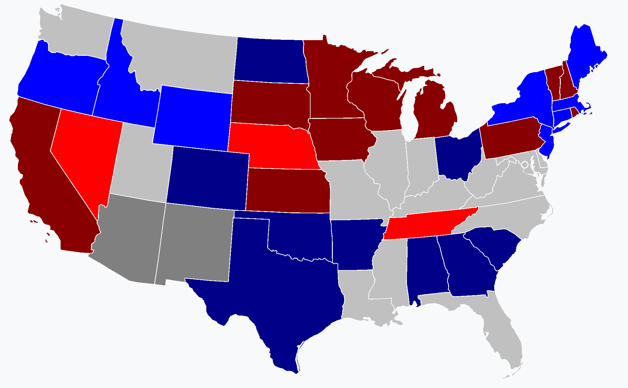 A map showing the results of the 1910 United States Gubernatorial elections